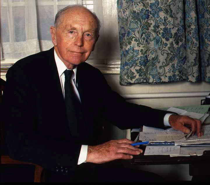 Alec Douglas Home portrait